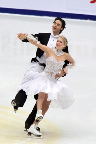 Kaitlyn Weaver and Andrew Poje at the 2009 Cup of China.